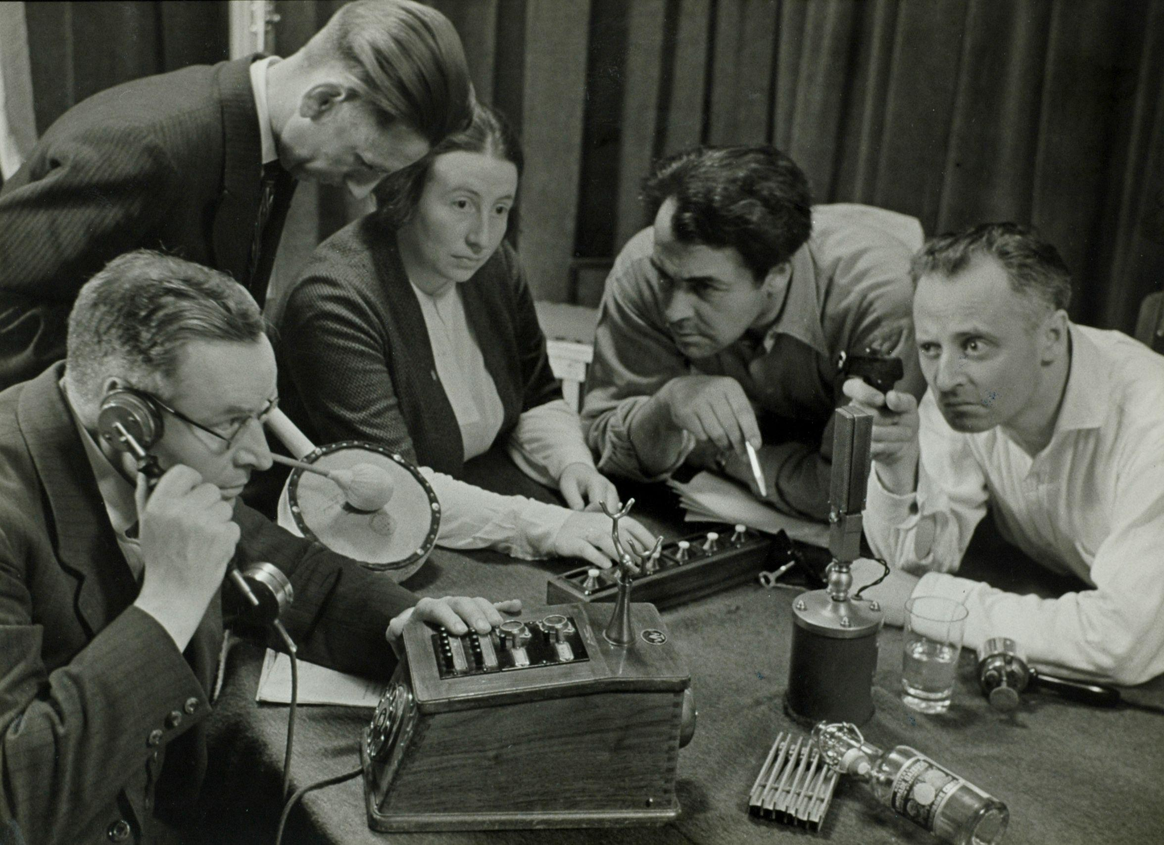 Recording a radio play. The Netherlands, 1949. The devices on the table, including the prop gun at right, are used to produce live sound effects during the performance.